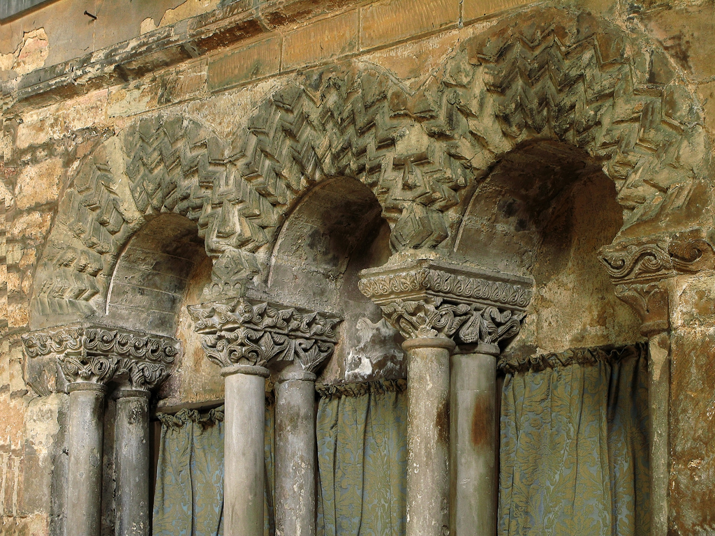 The Norman sedilia,with rich zigzag carving to the arches and rich foliage on the capitals